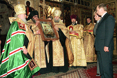 THE ANNUNCIATION CATHEDRAL IN THE KREMLIN, MOSCOW. A ceremonial prayer on the inauguration of the new President. Alexy II, Patriarch of Moscow and All Russia, presents the icon of St Alexander Nevsky to Mr Putin.